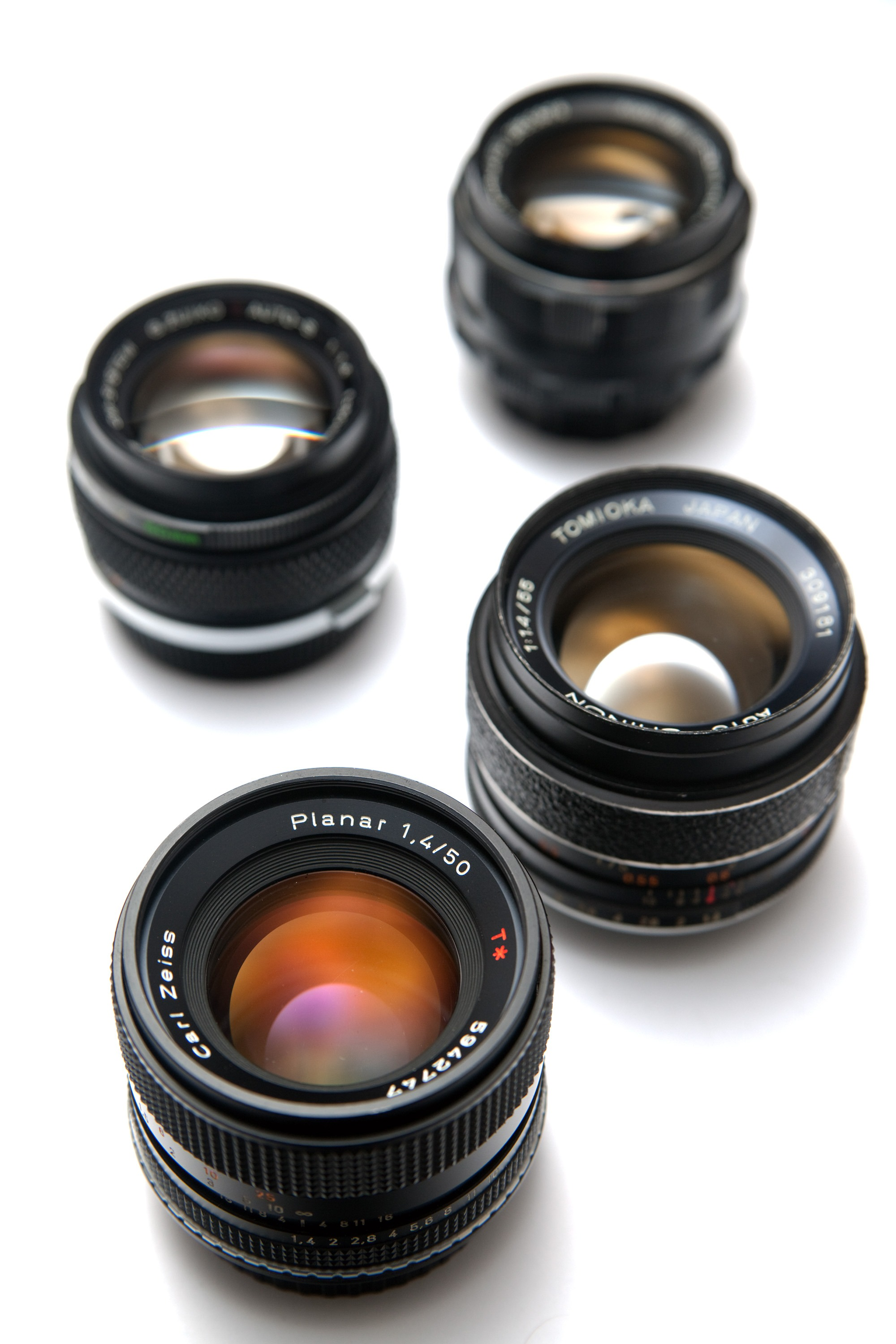 Four normal lenses for 35mm SLR cameras. From front to back, Carl Zeiss Planar 50mm f/1.4, Tomioka Auto Chinon 55mm f/1.4, Olympus Zuiko 50mm f/1.4, Pentax Super Takumar 50mm f/1.4.